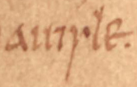 An excerpt from folio 25r of Oxford Bodleian Library MS Rawlinson B 489 (the Annals of Ulster). The excerpt concerns Auisle, King of Dublin (died 867).